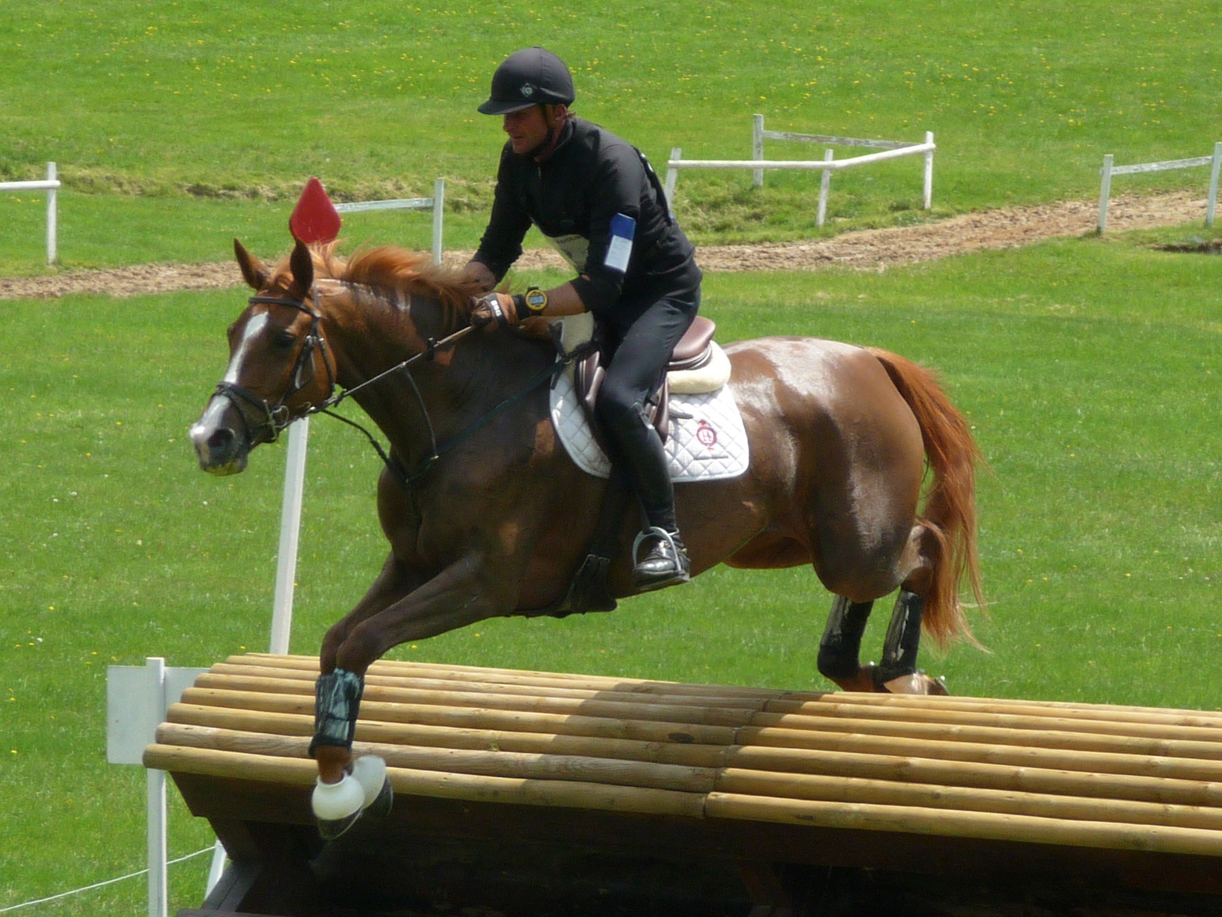 Didier Dhennin and Encore une medaille*HN, anglo-arabian mare, during the french championship of eventing "Master Pro" 2009 at Pompadour, France